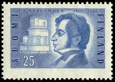 Postage stamp depicting the Finnish poet and physicist J.J. Nervander